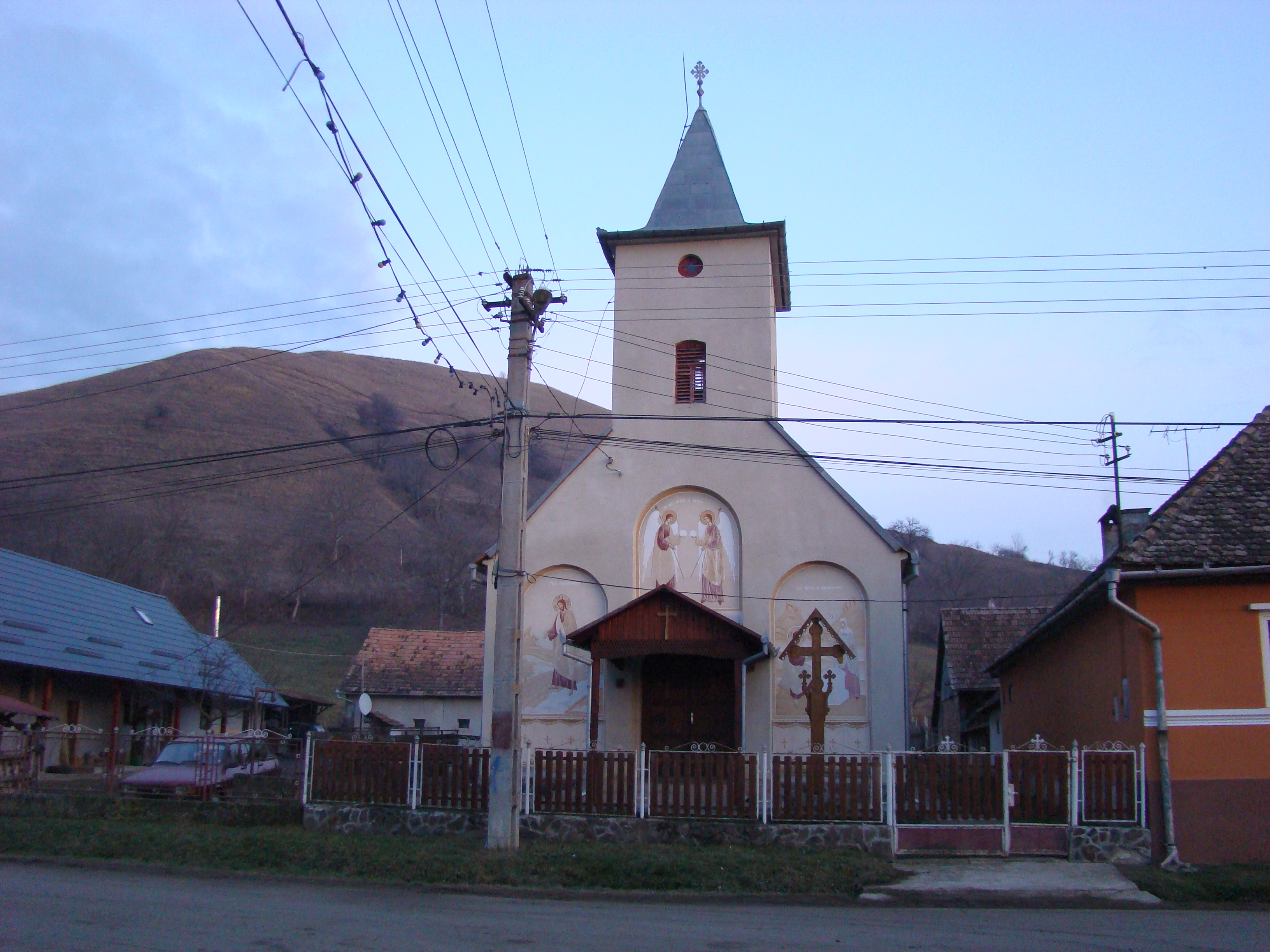 Gogan, Mureș county, Romania